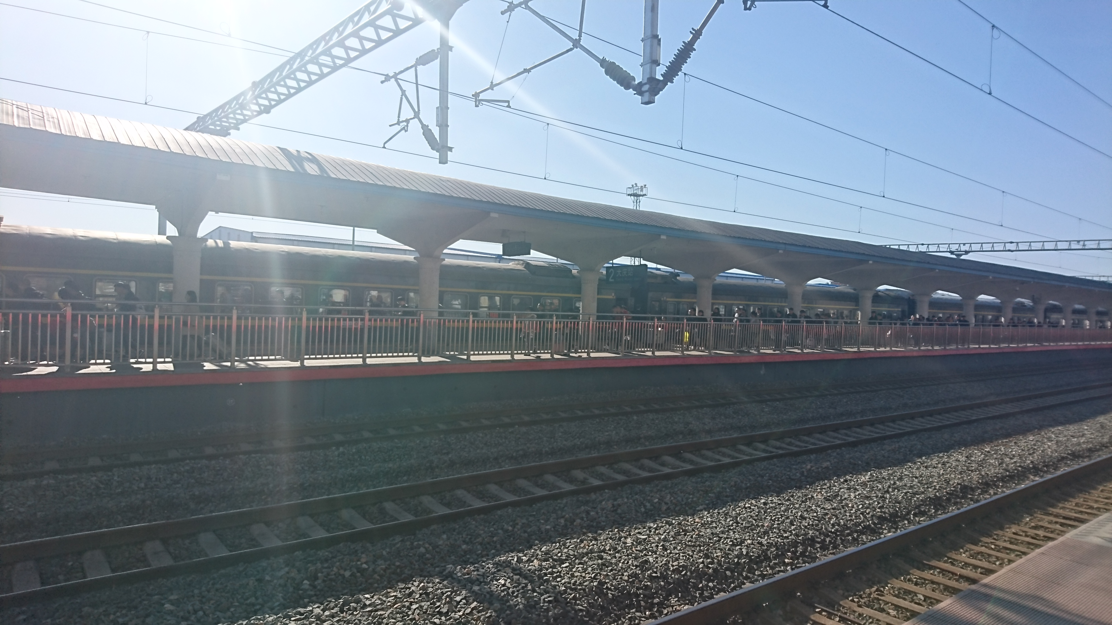 Daqing Railway Station in 2018